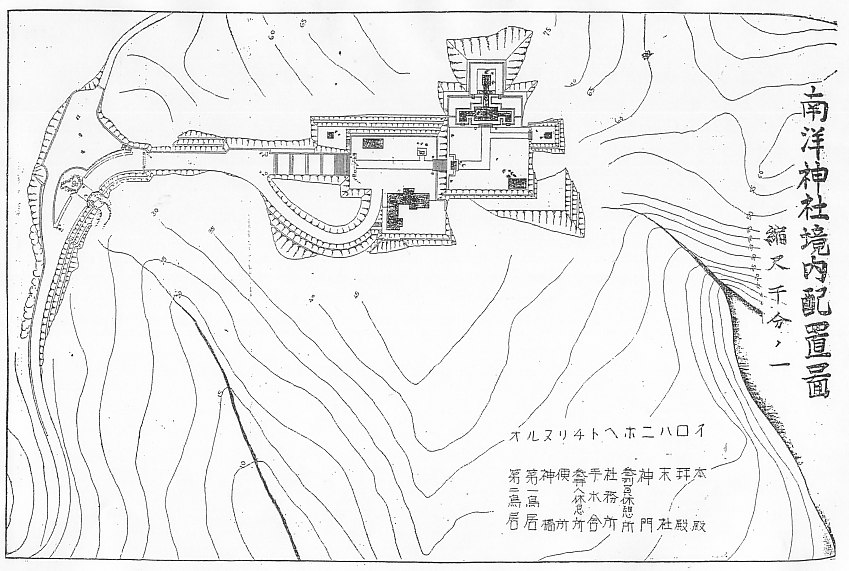 Nan'yo Jinja Plan